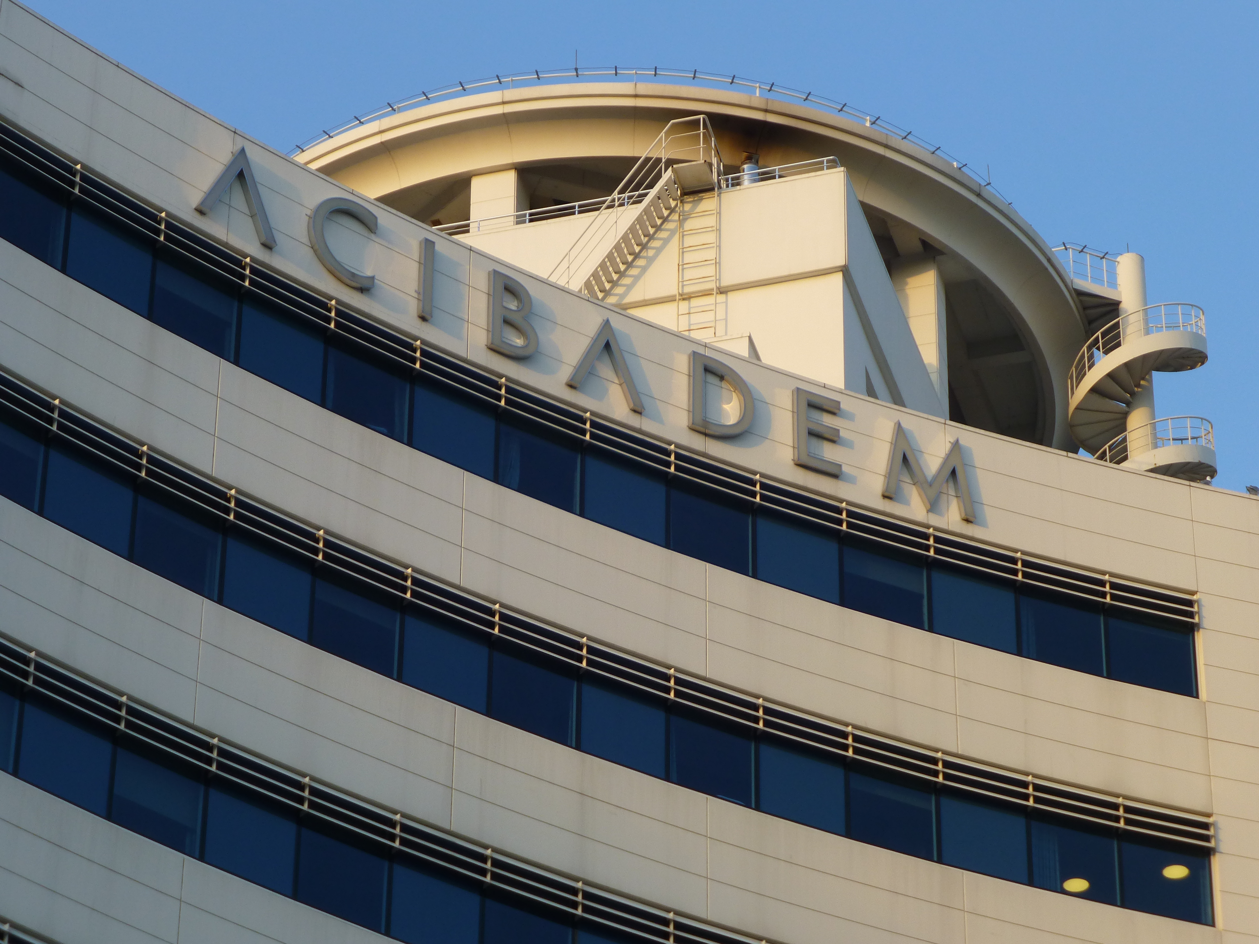 Istanbul Acıbadem Hospital